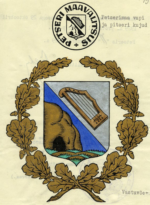 Coat of Arms of Petseri County, as accepted by the County Council on October 29, 1929 and approved by the Government of the Republic of Estonia on February 12, 1930.